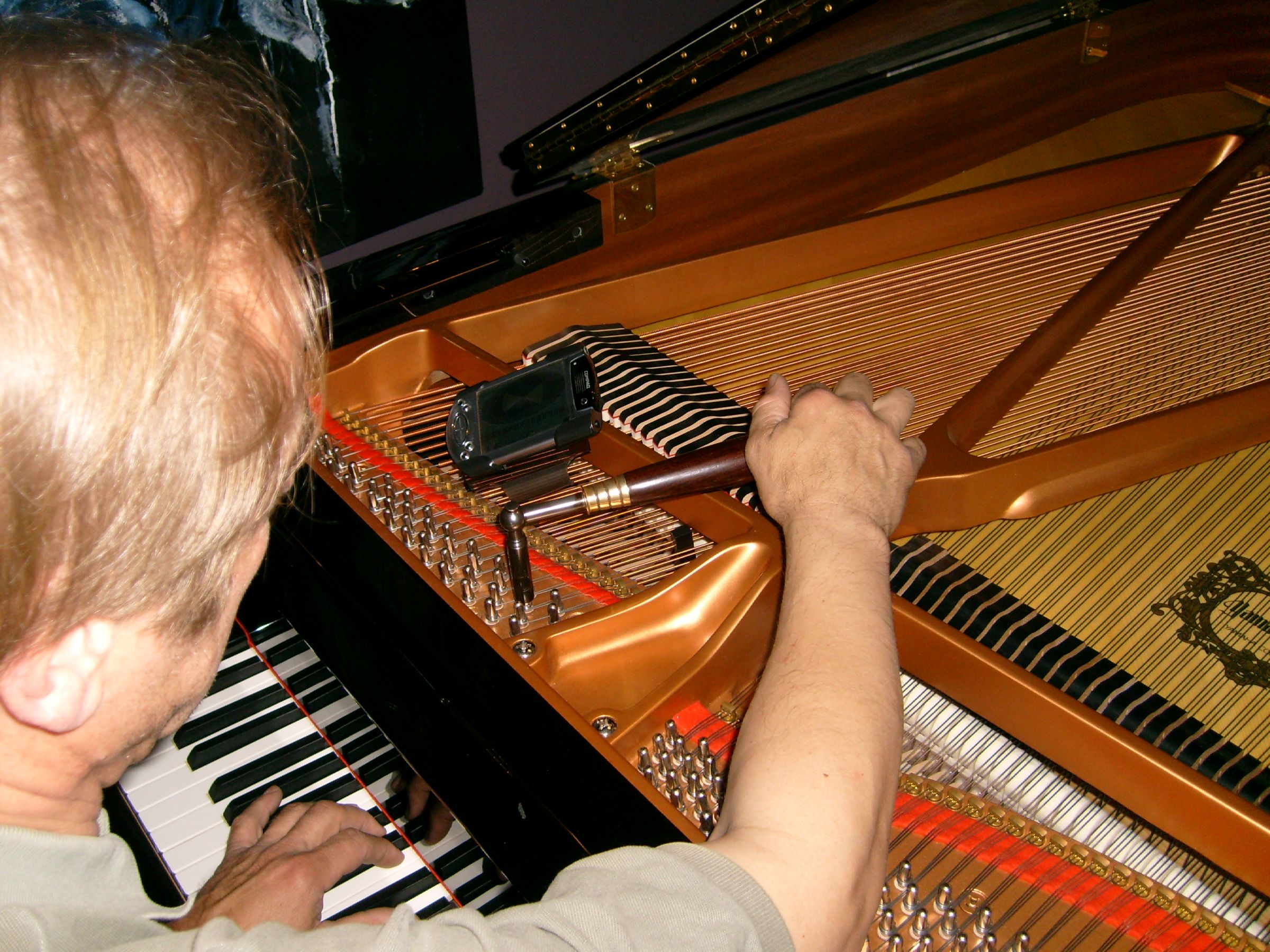 Yamaha grand piano being tuned by Mr. Elsen in Ancien cinéma café-club in Vianden, Luxembourg